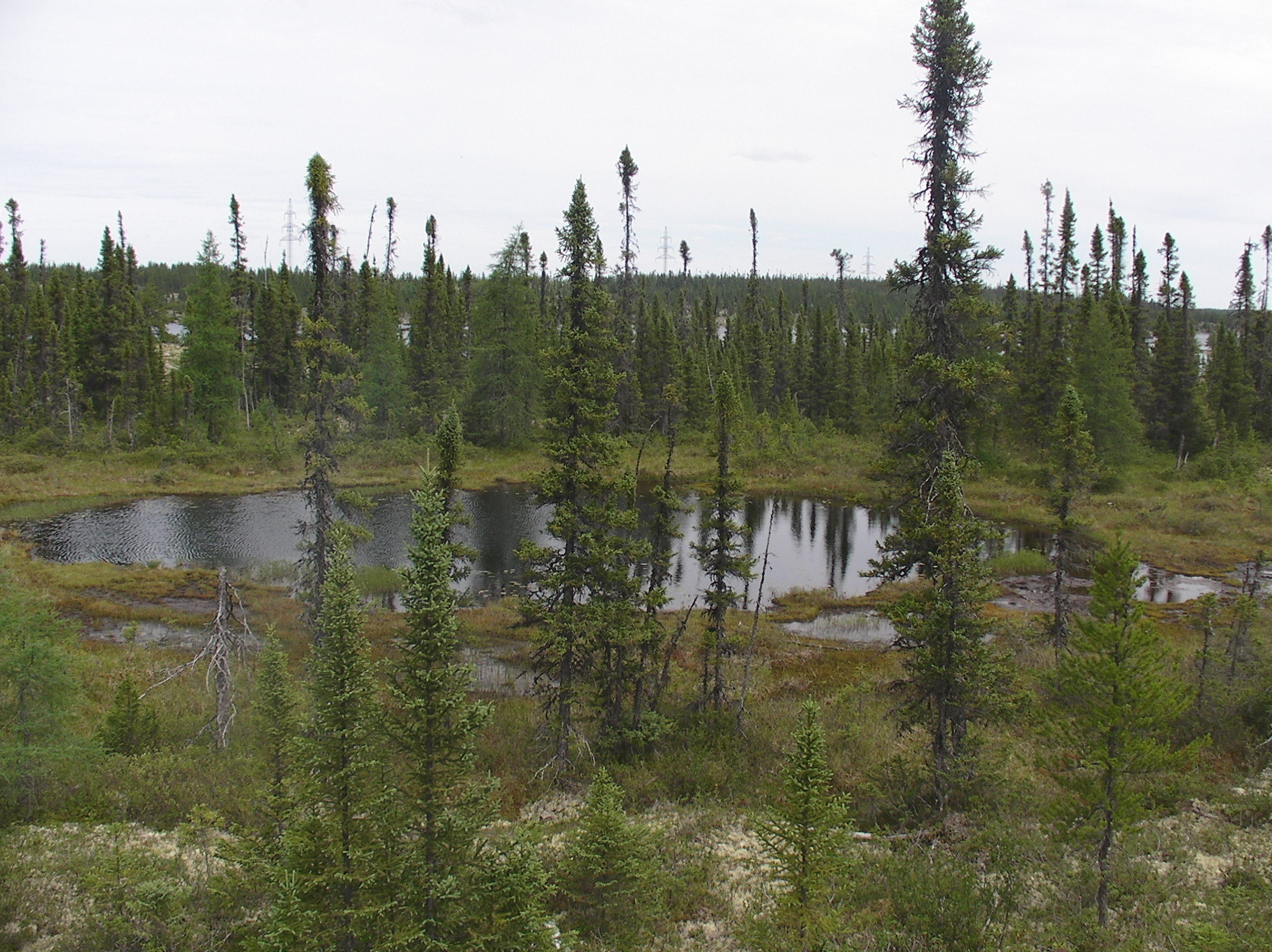 Small lake and Picea mariana forest in the depths of the taïga in Baie-James district, Quebec